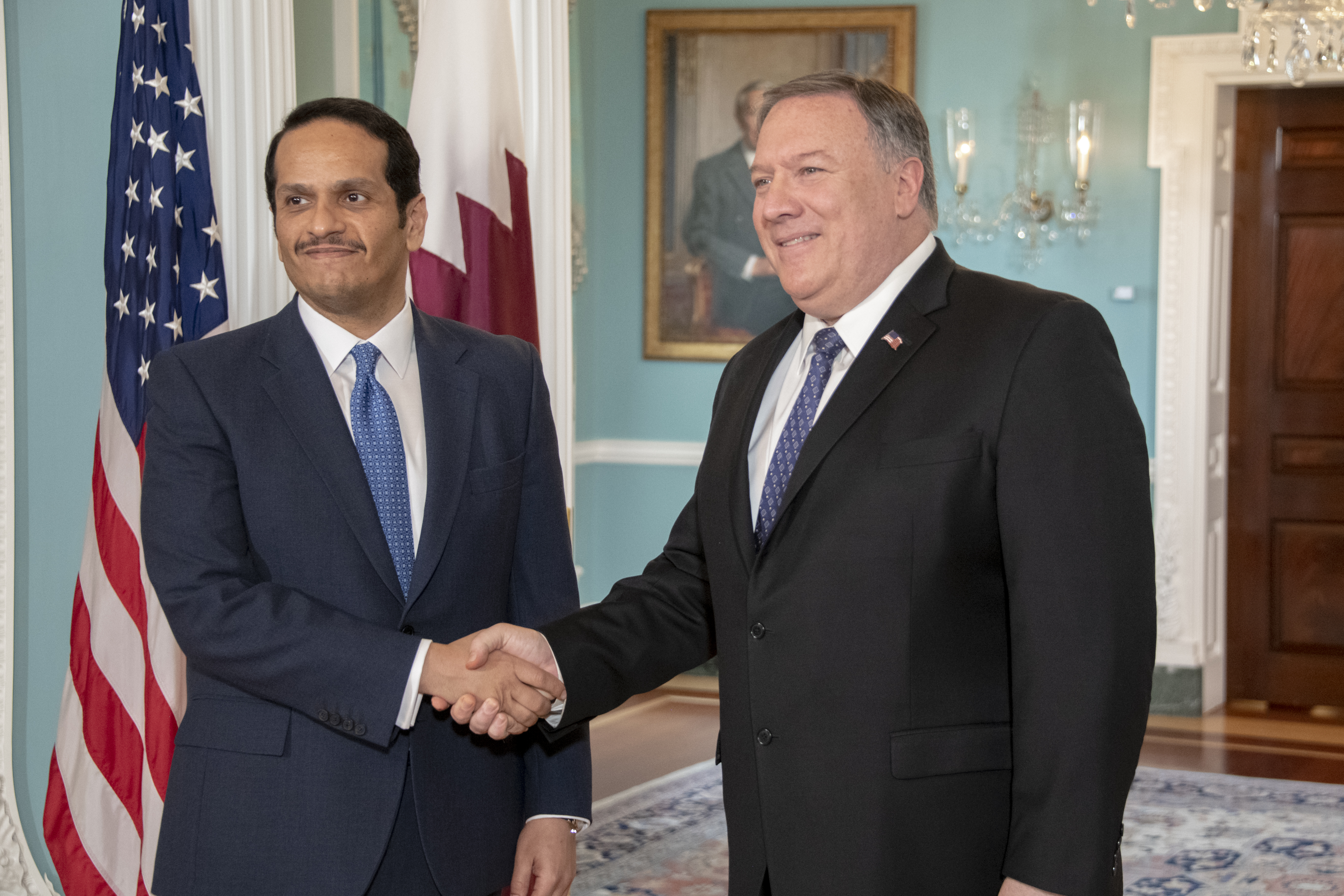 U.S. Secretary of State Michael R. Pompeo meets with Qatari Minister of Foreign Affairs Sheikh Mohammed bin Abdulrahman Al Thani at the U.S. Department of State in Washington, D.C., on April 24, 2019. [State Department photo by Ron Przysucha/ Public Domain]